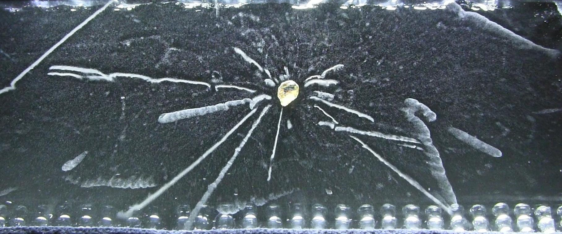 cloudylabs.fr